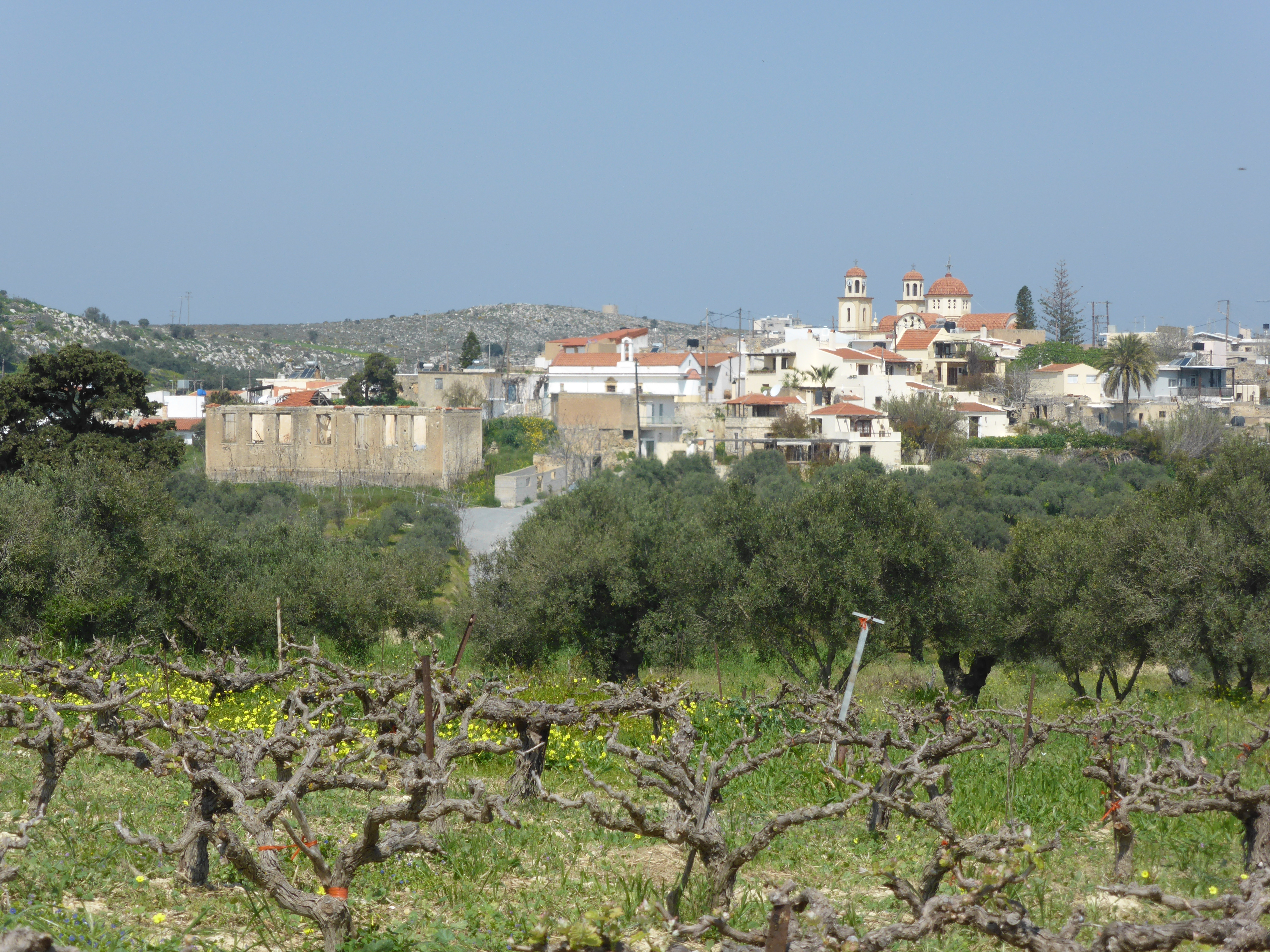 Anopoli, village view from the south